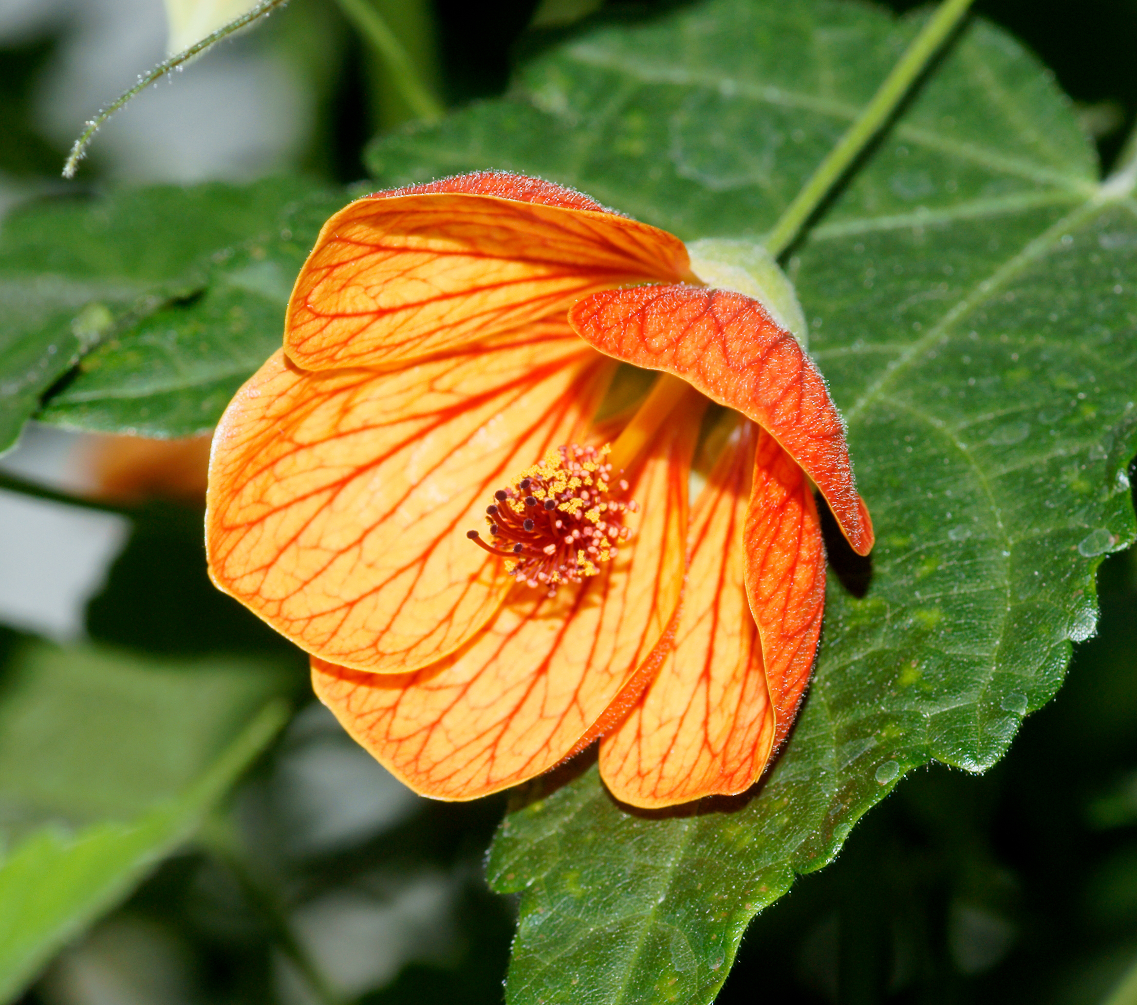 Abutilon